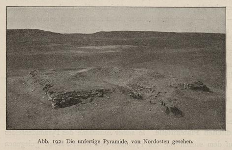 Remains of Neferefre's unfinished pyramid. Taken from Ludwig Borchardt's Das Grabdenkmal des Königs Sahur-Re (1910).